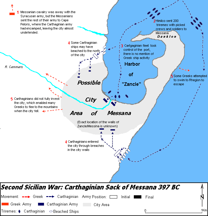 This file shows a possible scenario of the Carthaginian attack on Messana in 397 BC. Information taken from public domain book History of Sicily by Edward A. Freeman, the source is Map of Messina 7 from Wikimedia Commons